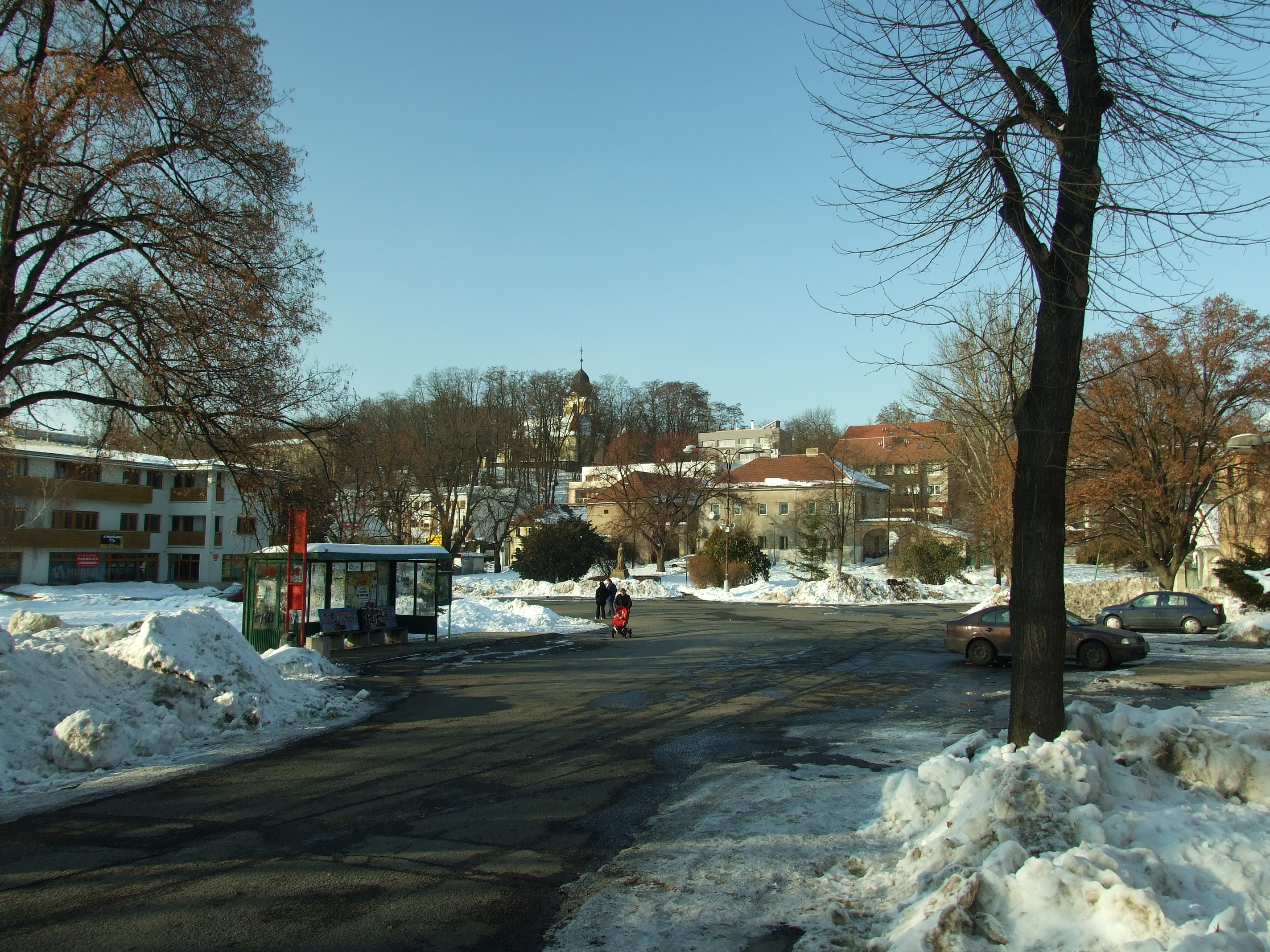 Main square in Klecany, village near Prague, Central Bohemian Region, CZhelp